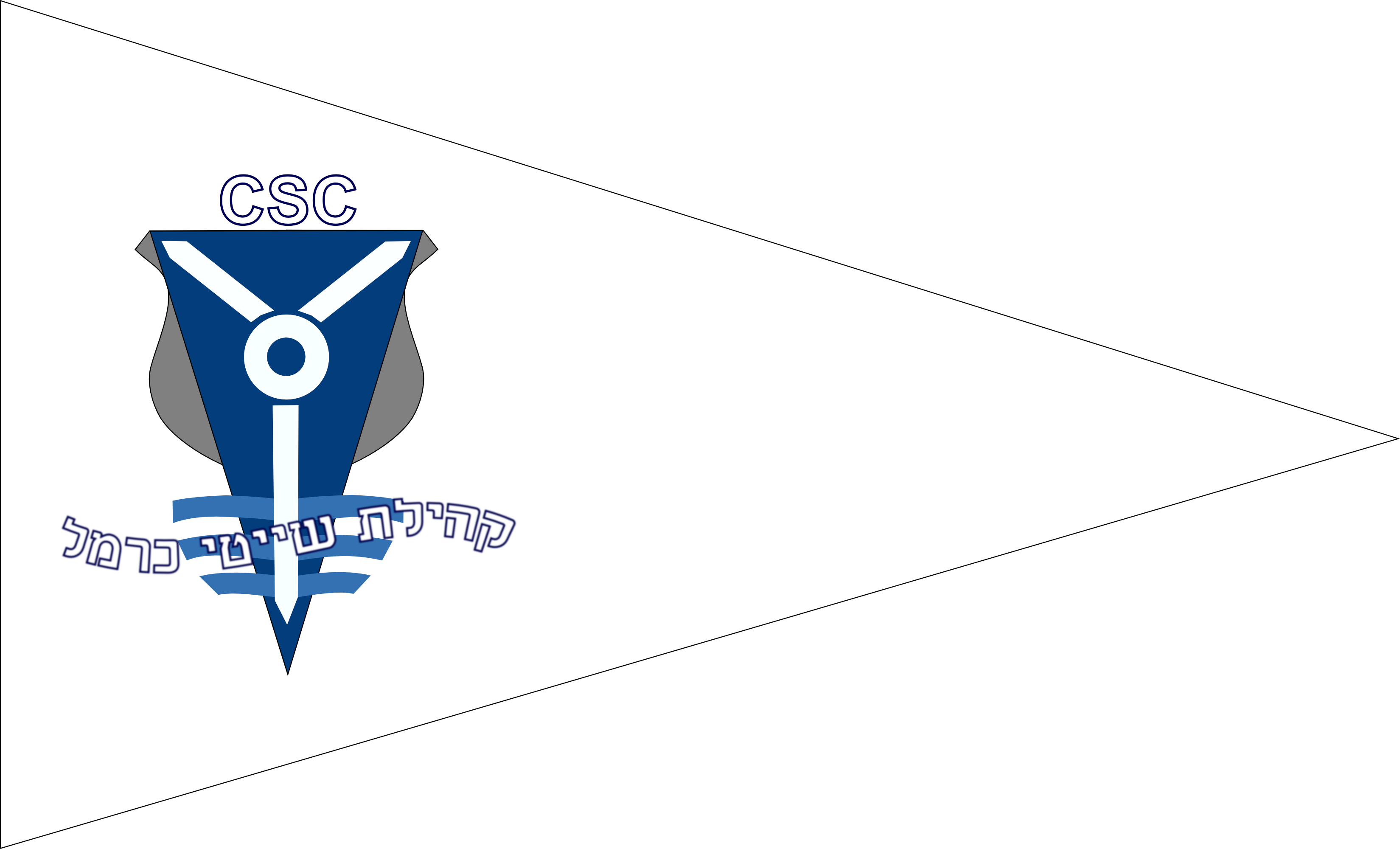 Carmel Sailing Community club Bargee. 2014